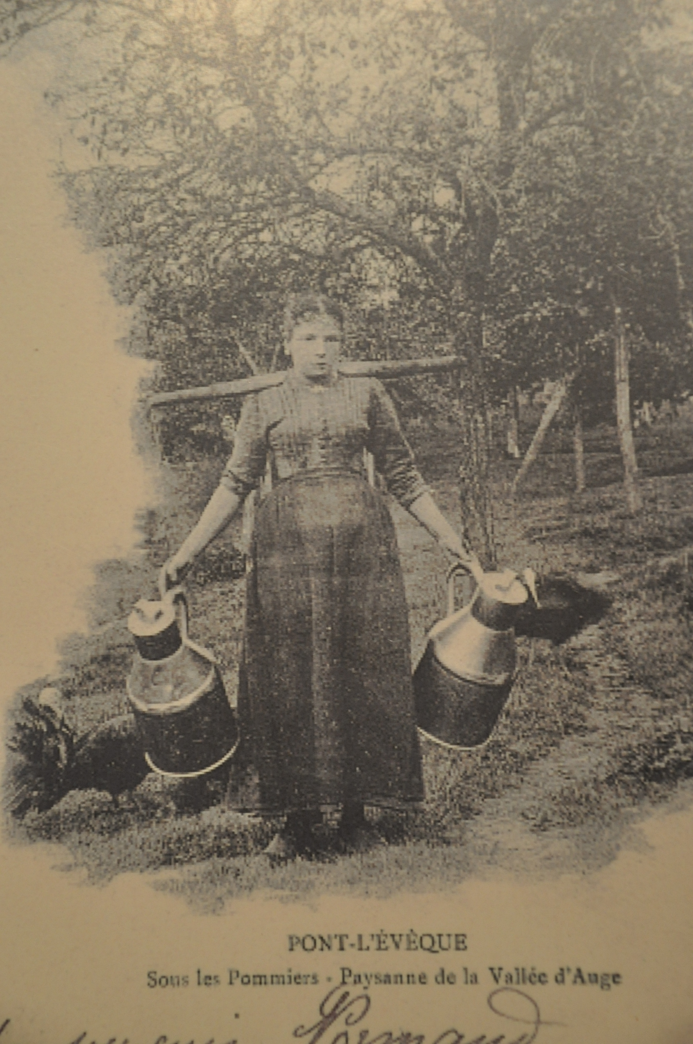 Milkmaid in Calvados Normandy, France)